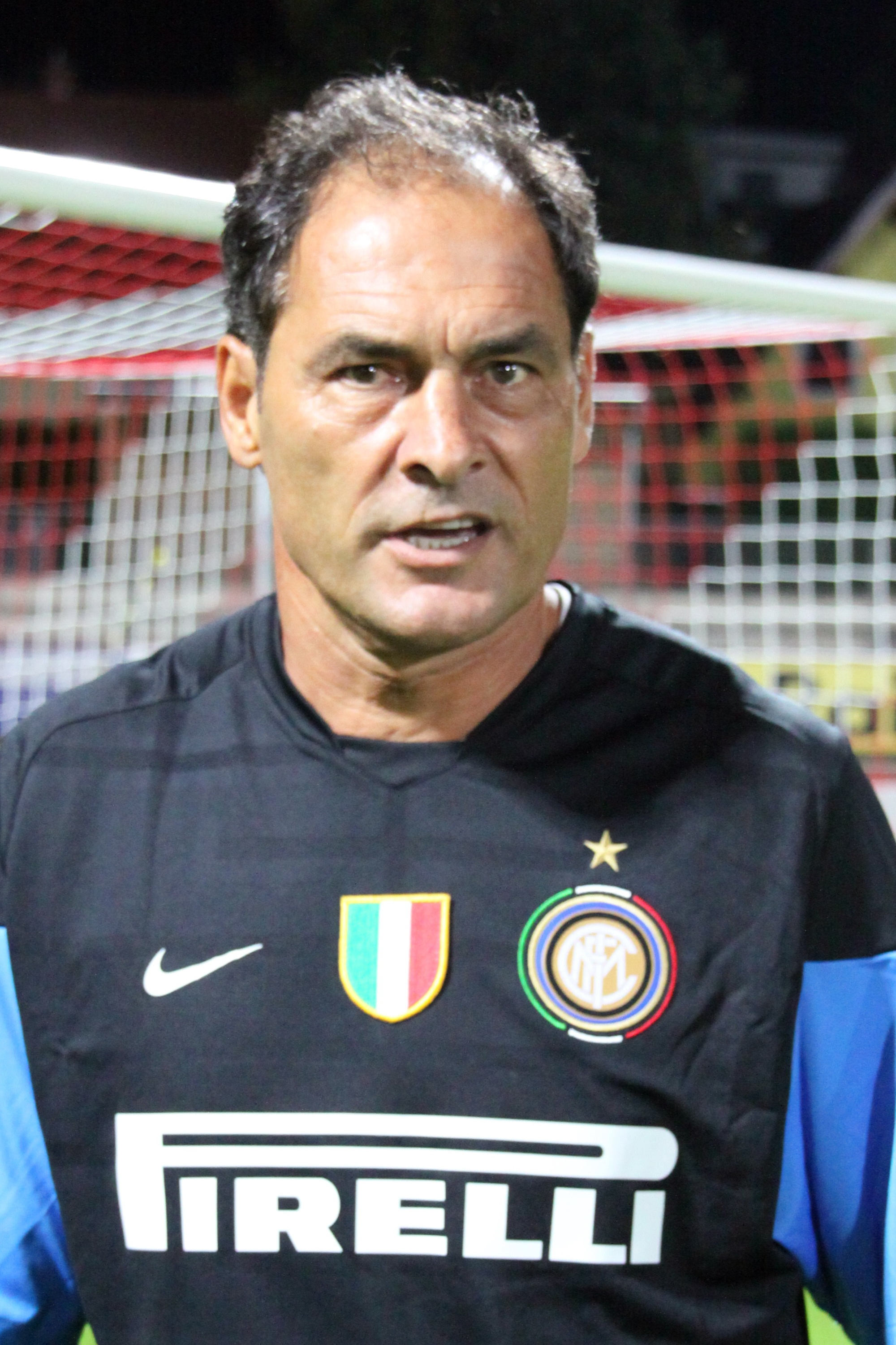 Silvino Louro (Goalkeeper coach) - F.C. Internazionale Milano